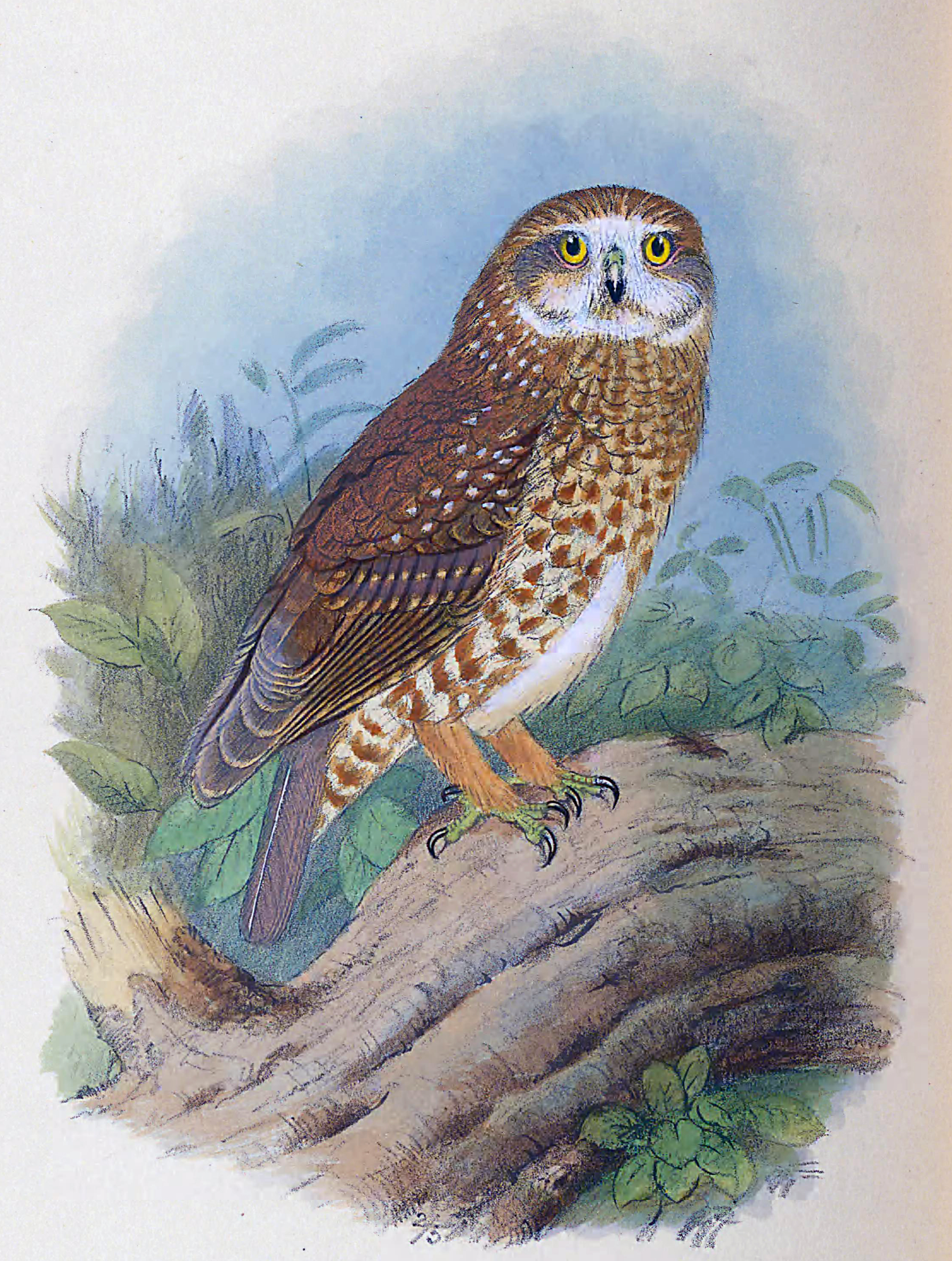 Lord Howe Boobook Ninox novaeseelandiae albaria by Henrik Gronvold, published in The Birds of Australia (1910-28) by Gregory Macalister Mathews.